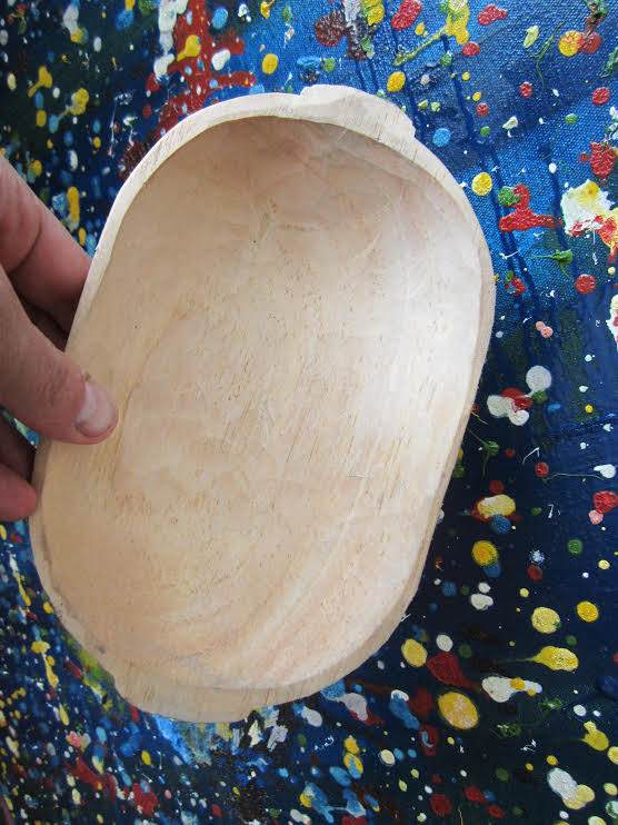 Bateas Ecuador in the colonial center, a short walk from the Casa Gangotena three bucks. amazing art crafts ecuador quito